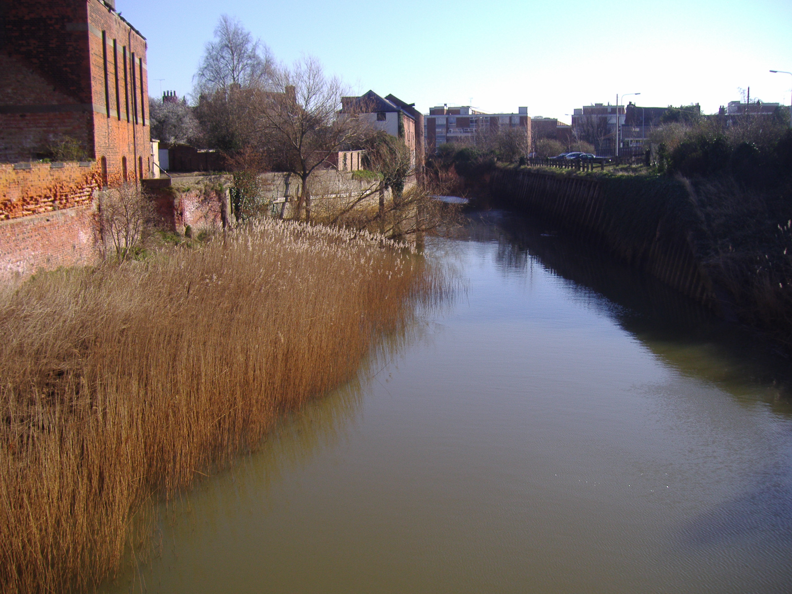 A Digital photograph of the river Gaywood at Kings Lynn 12th March 2007, By M Hobbs